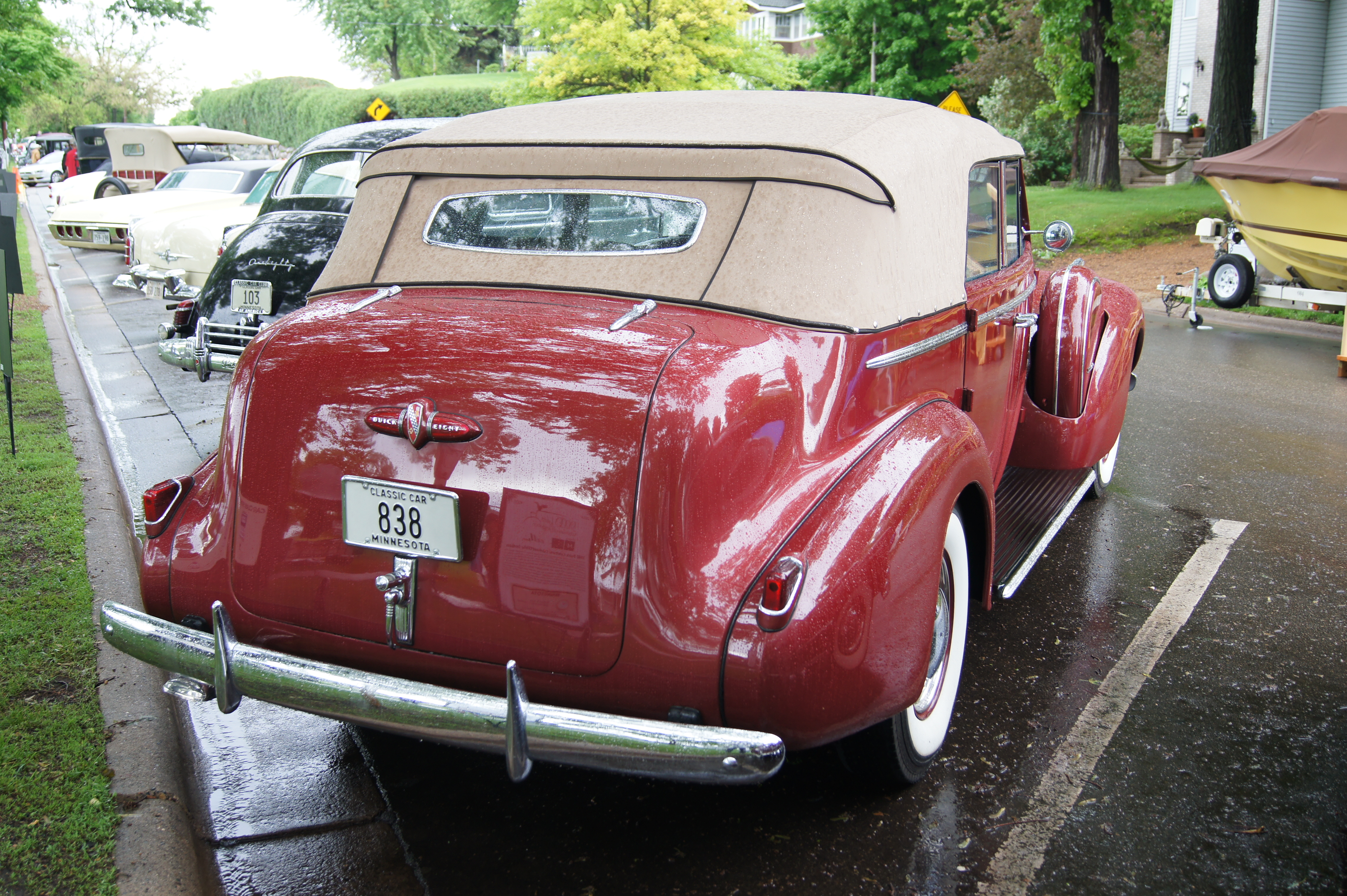 2nd Annual 10,000 Lakes Concours d'Elegance to Benefit Courage Center Foundation June 1, 2014 Excelsior Commons Excelsior Minnesota Thousands of car pictures at the link below